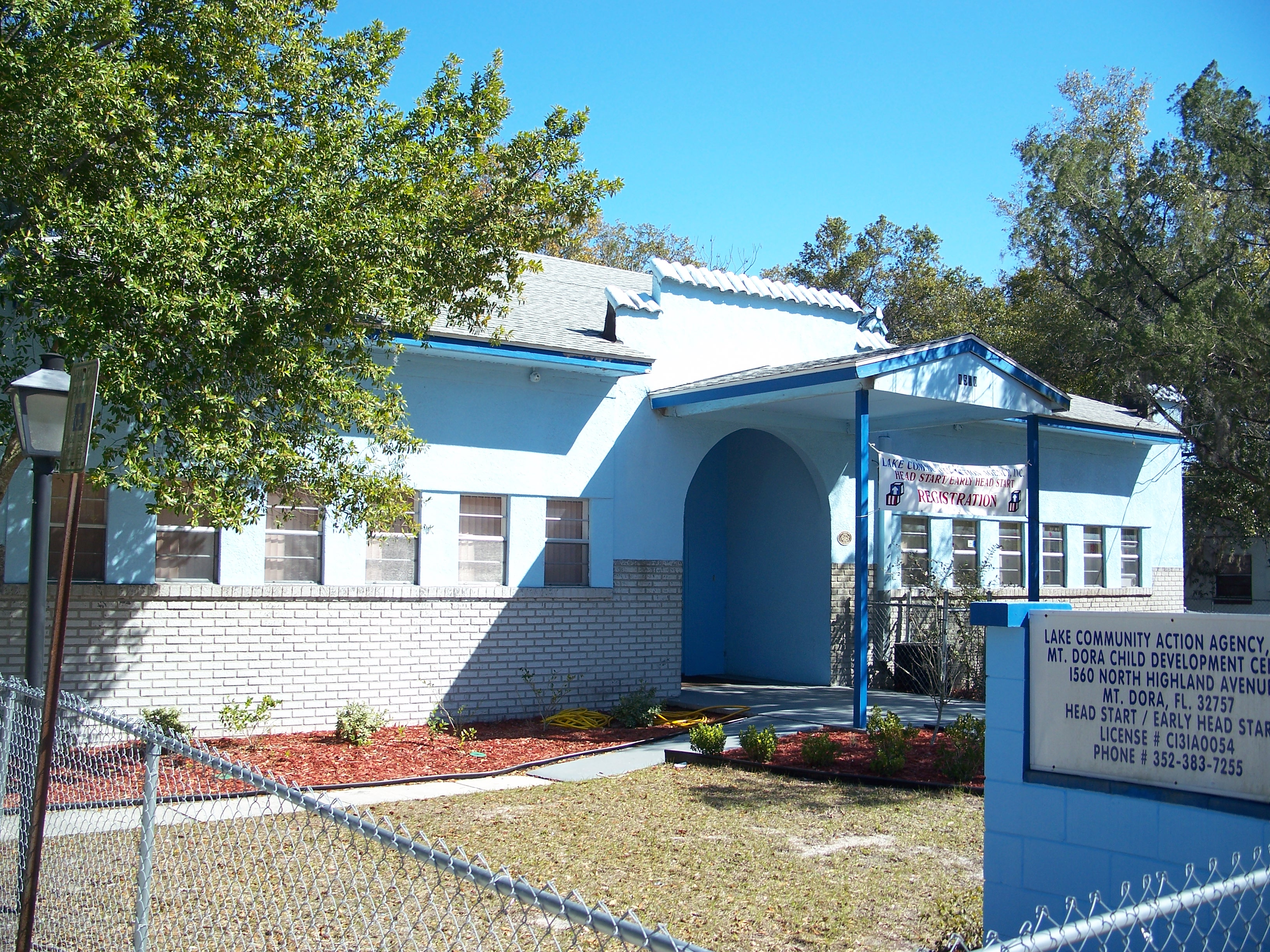 Mount Dora, Florida: Milner-Rosenwald Academy. It has a pending nomination for the National Register of Historic Places.